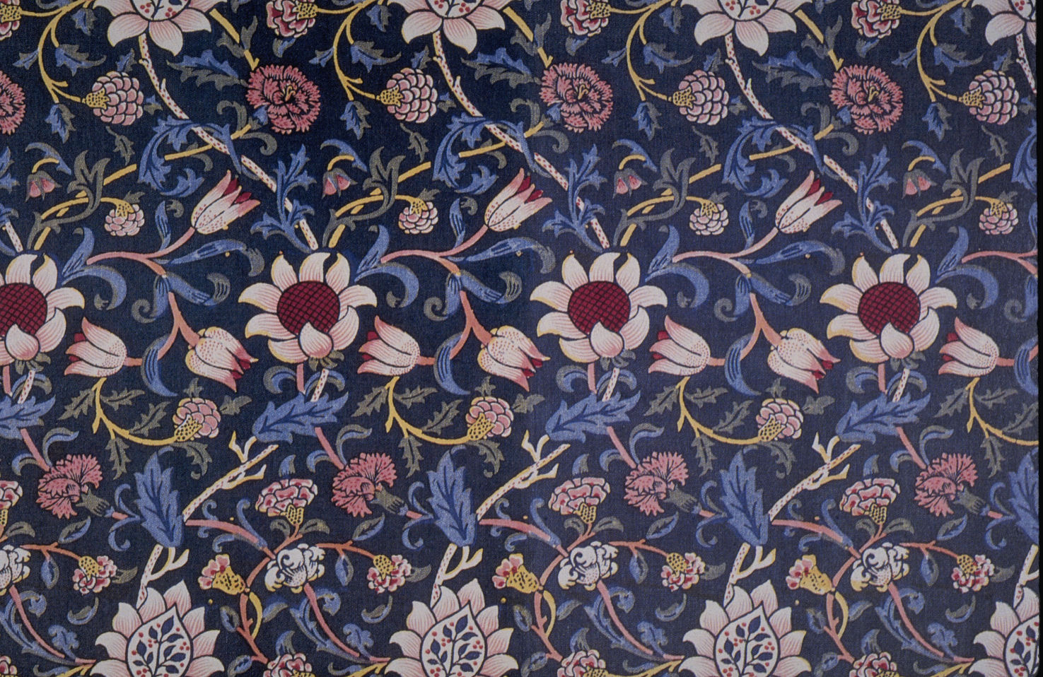 Evenlode indigo discharge and block-printed fabric, designed by William Morris. (Identification from Linda Parry: William Morris Textiles, New York, Viking Press, 1983, ISBN 0-670-77074-4)